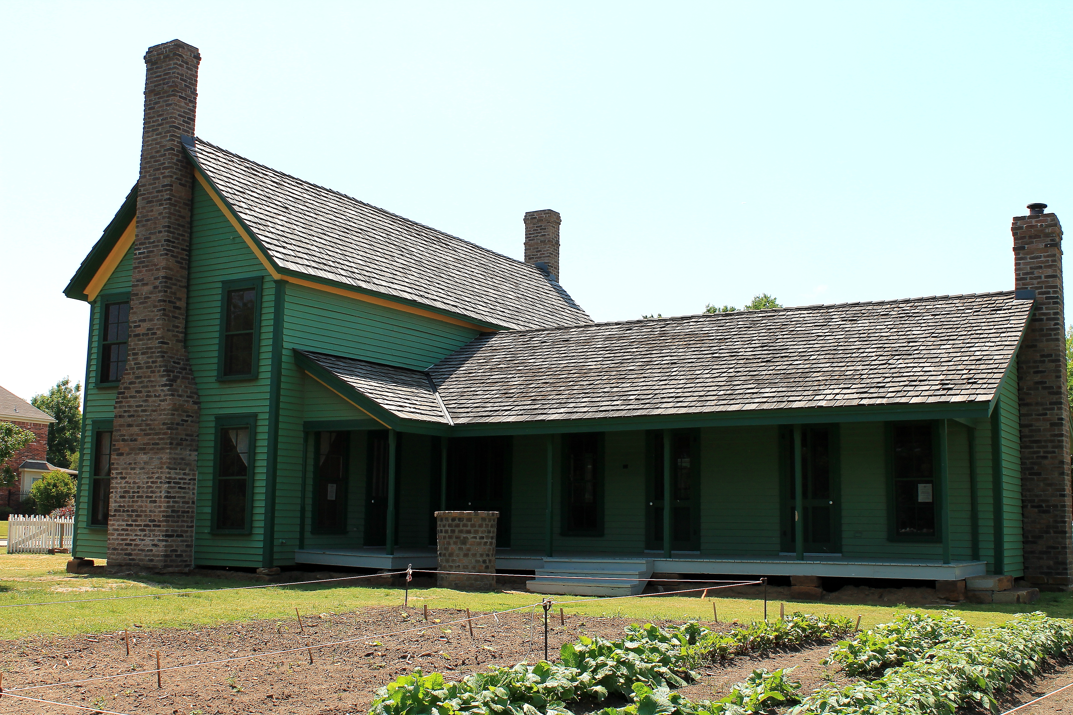 Thomas J. and Elizabeth Nash Farm